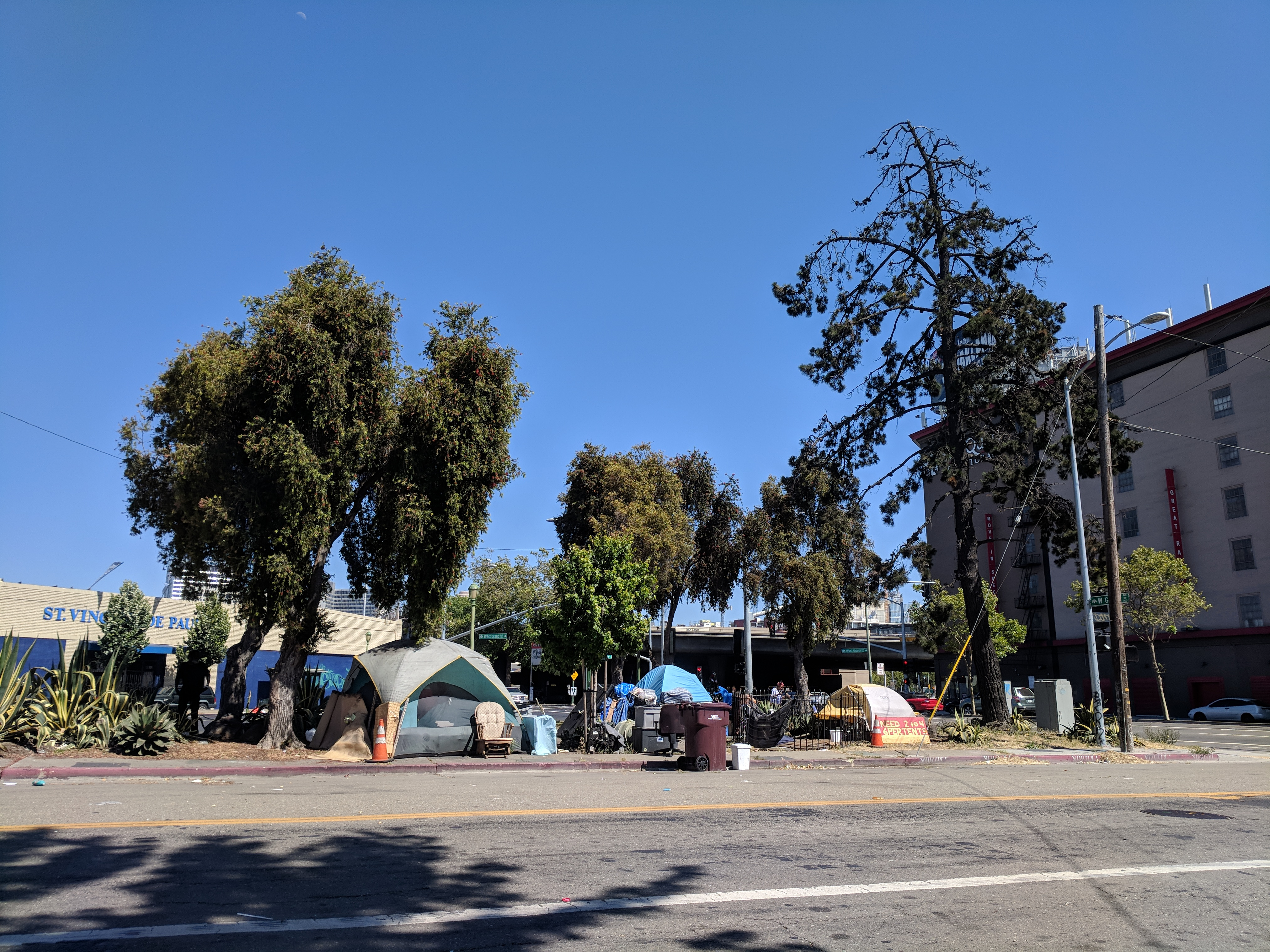 A small tent city near an onramp to Interstate 980 in Oakland, California.